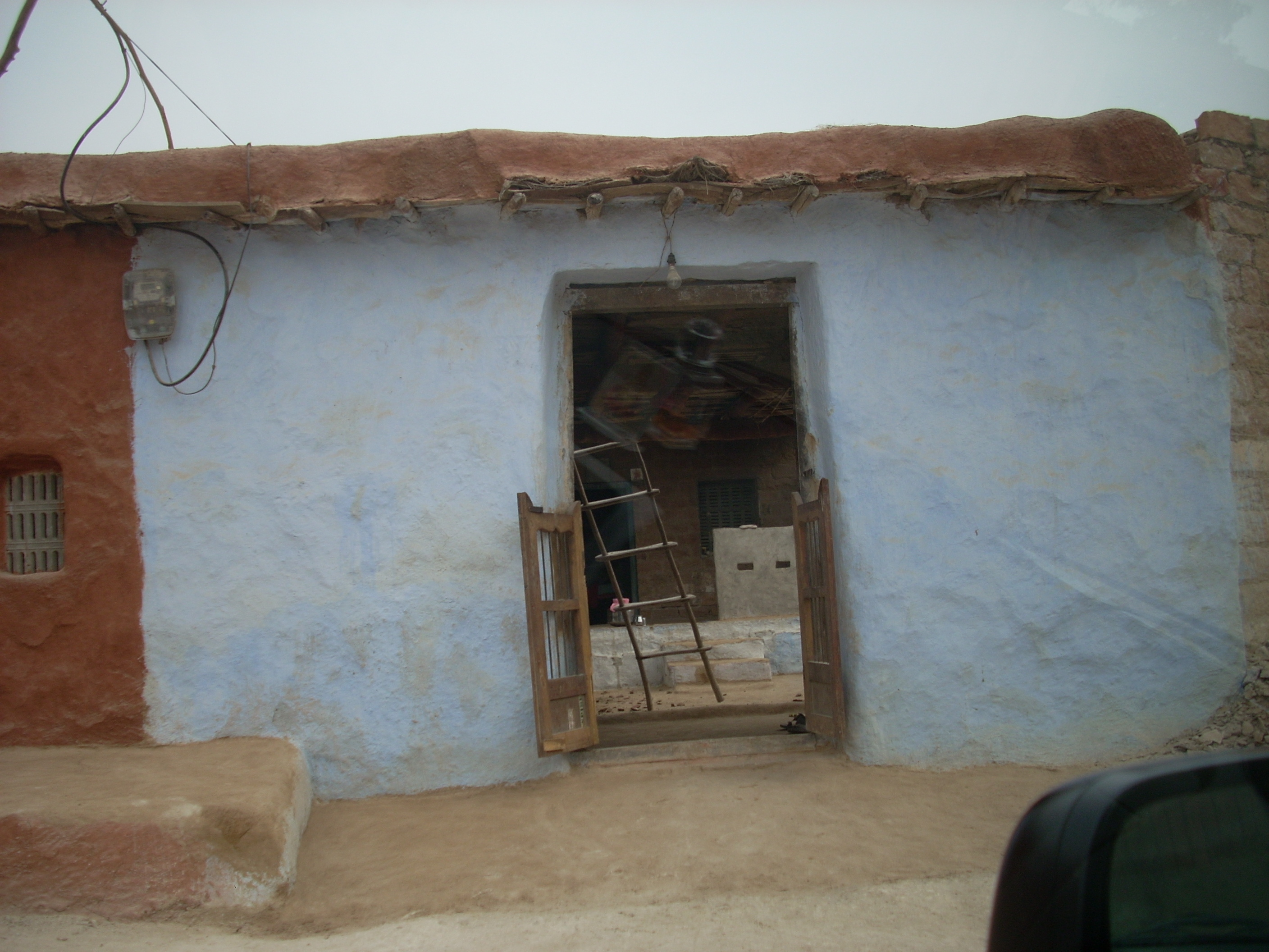 hut lolawas